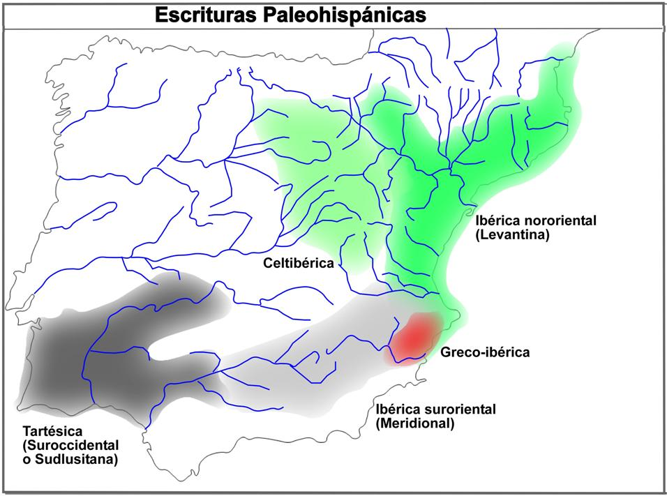 Paleohispanic writing systems map. Spanish